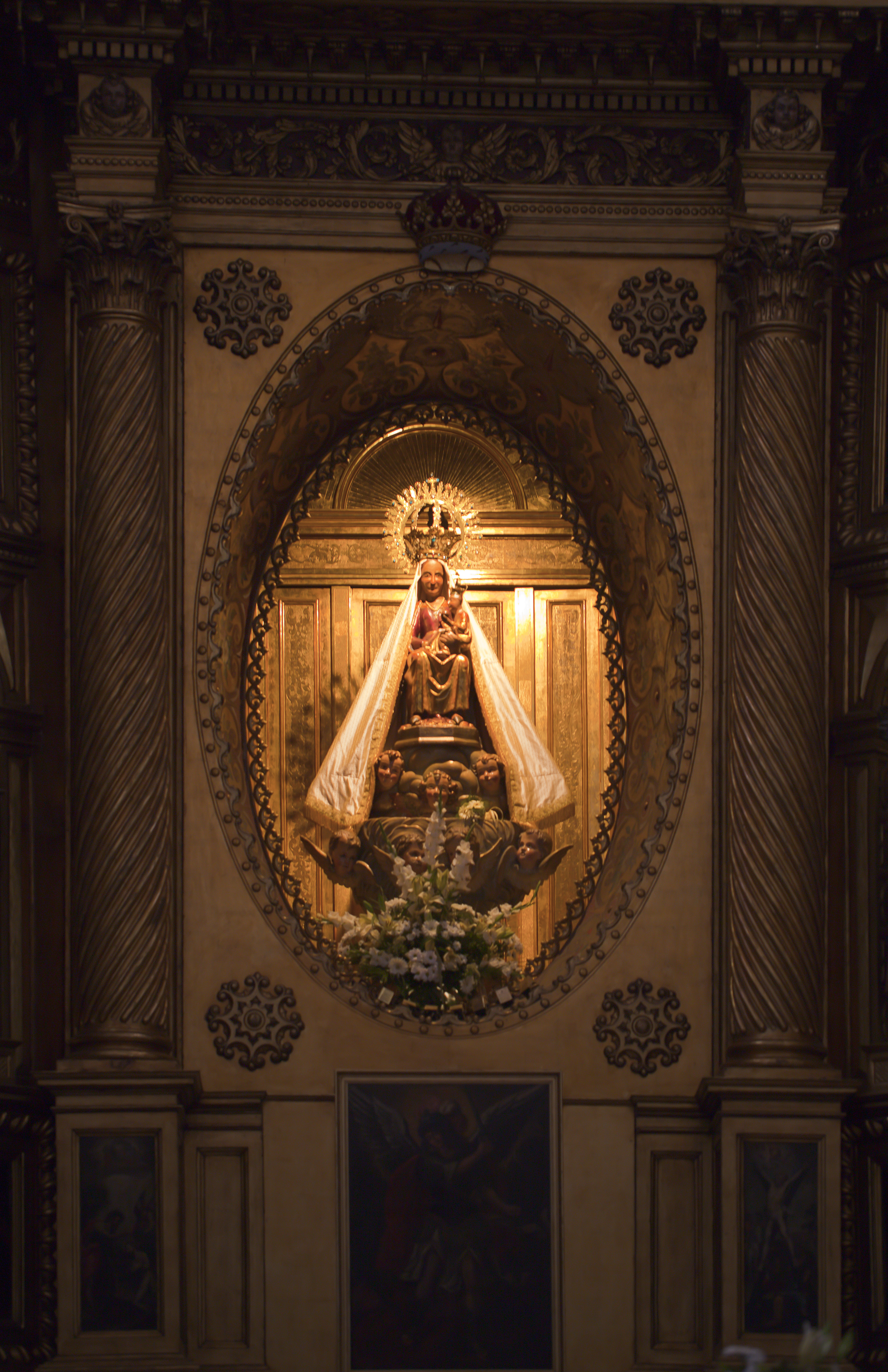 Basilica of Nuestra Señora de los Milagros, Ágreda, Spain